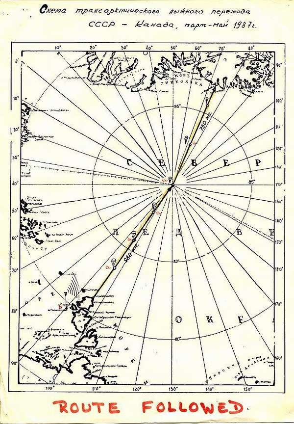 Low resolution map of Arctic Ocean, showing the route of the 1988 Soviet-Canadian Polar ski-trek expedition. Language: Russian